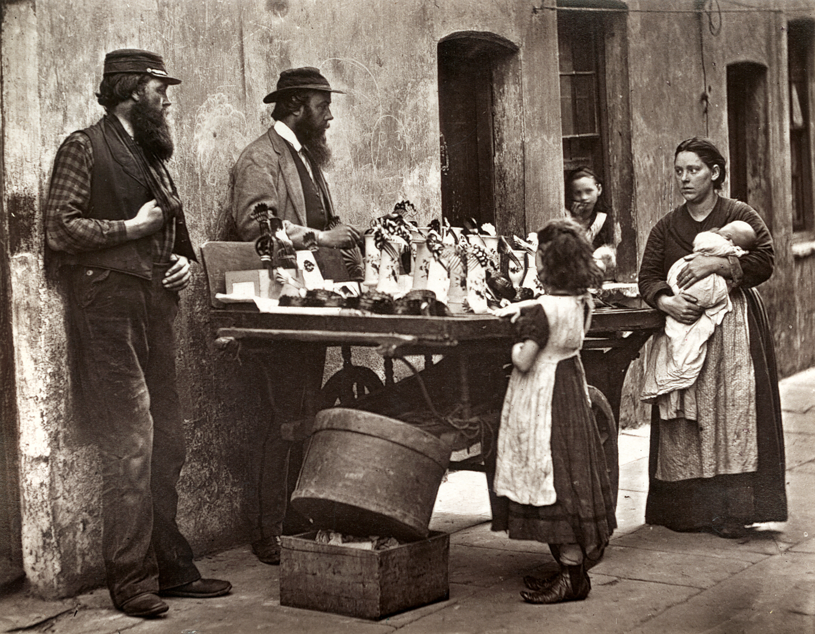 From 'Street Life in London', 1877, by John Thomson and Adolphe Smith: 'The accompanying photograph represents a street group gathered round a dealer whose barrow is one of the most attractive I have seen during my wanderings about town. The story of its owner was narrated to me in the following words :- [...] “There are now too many 'swags' and most of them ain't the gentlemen they used to be. I should say there are 1500 ‘swag' dealers about London, counting women, boys, and girls. The average clear profits all round would, I think, be about fourteen shillings each a week. My missus and myself between us, we make clear over thirty shillings a week. It takes about thirty shillings to keep us, five shillings a week rent, and the rest for clothes, food, and fuel. Three or four years ago I have drawn as much as two pounds on a Saturday night. Out of that I had about twenty-six shillings profit. Now I have not been drawing more than five shillings a day, except on rare occasions. The profits are much lower at present. Ten shillings out of the sovereign is considered good now. The profit is not so great as it looks, when you think of how long we stand and how many are the folks we supply before we get a pound. It must take about fifty customers to make up a pound of money. Times are bad, and I have left the streets for a regular job. My wife minds the barrow. But bad as times be, it's wonderful how women will have ornaments. I have had them come with their youngsters without shoes or stockings, and spend money on ear-drops, or a fancy comb for the hair.”' For the full story, and other photographs and commentaries, follow this link and click through to the PDF file at the bottom of the description